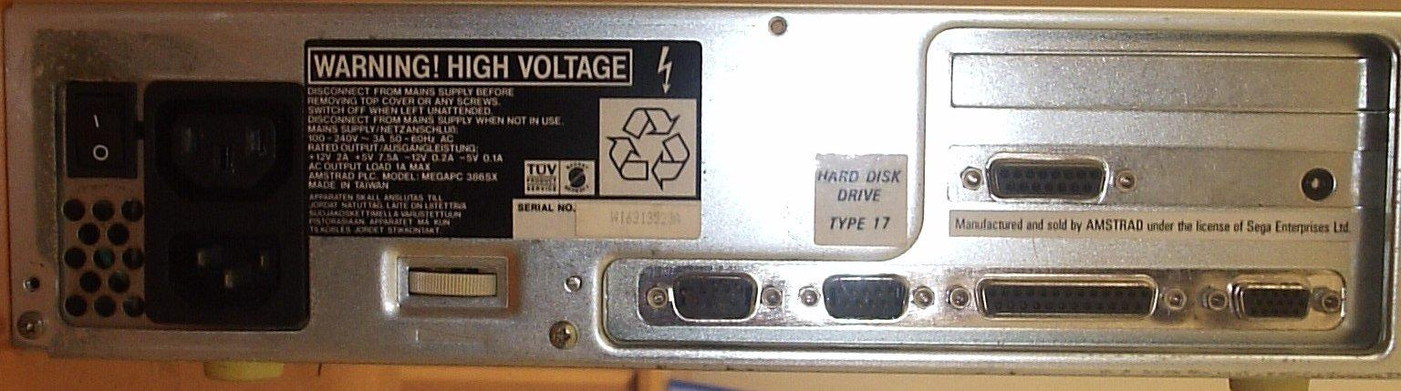 Rear view of the Amstrad Mega PC. Image was taken by myself of my own equipment, and released into public domain.